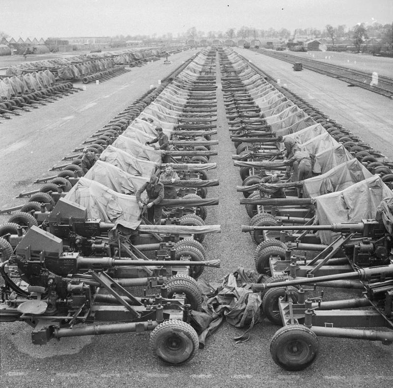 Preparations For Operation Overlord (the Normandy Landings)- D-day 6 June 1944 40mm Bofors Light AA guns on Mark II mountings lined up at an Ordnance Depot at Bicester.